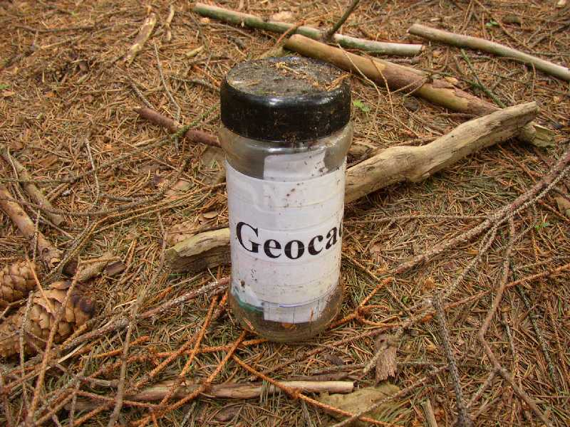 An example of container for geocaching game, Czech Republic.